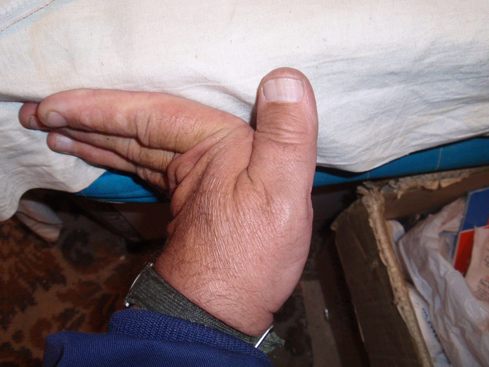 Hypermobility: double-jointed fingers